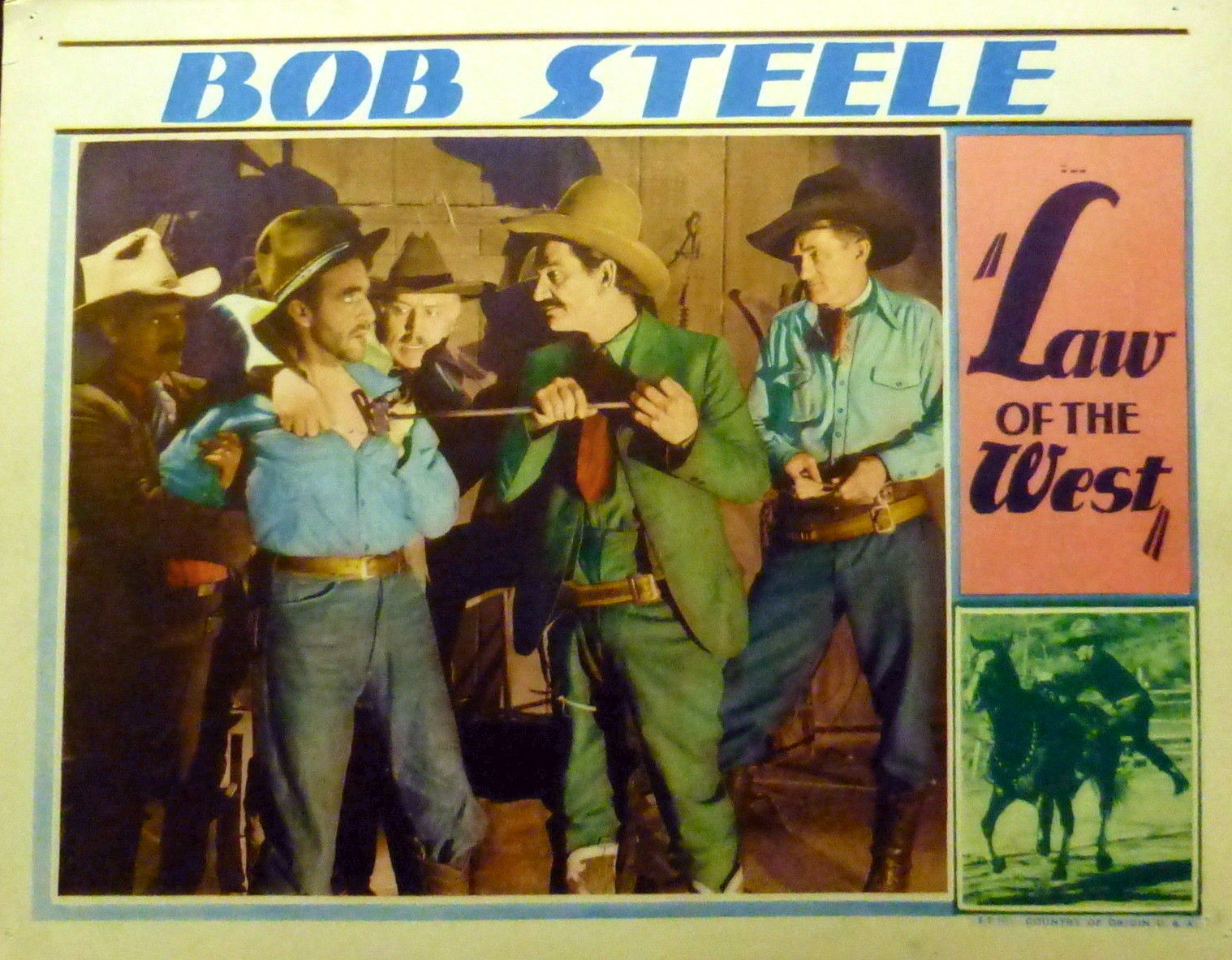 Lobby card for the 1932 film, Law of the West. Searches were done in both film and artwork for the years 1959 and 1960. There were no listings for the film title nor any for either Trem-Carr or Sono Art. There's no evidence of continuing copyright for the film or its related material.